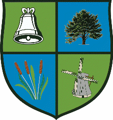 Coat of Arms of Theisa